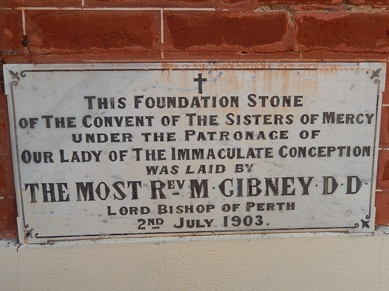 date 1903